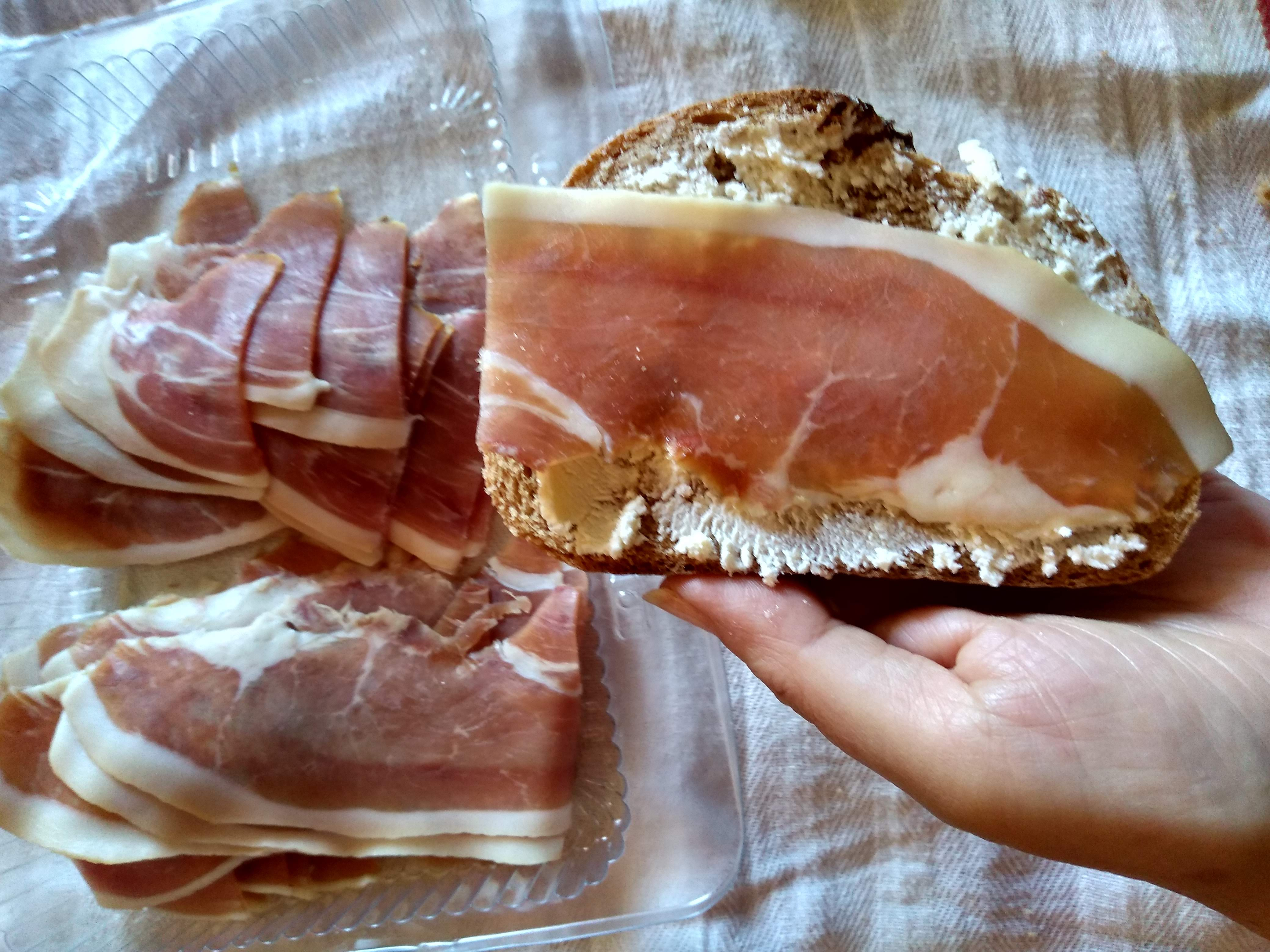 Kaymak and Njeguško pršut (prosciutto) from Montenegro